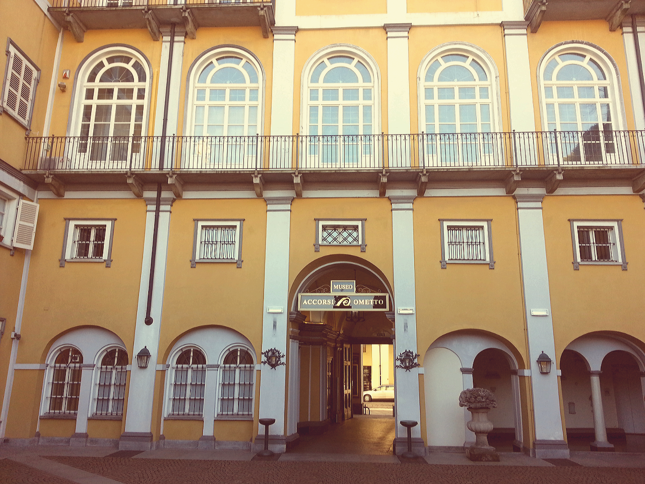 The museum